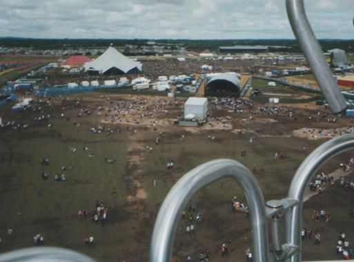 Arial View of Witnness from Fairyhouse.